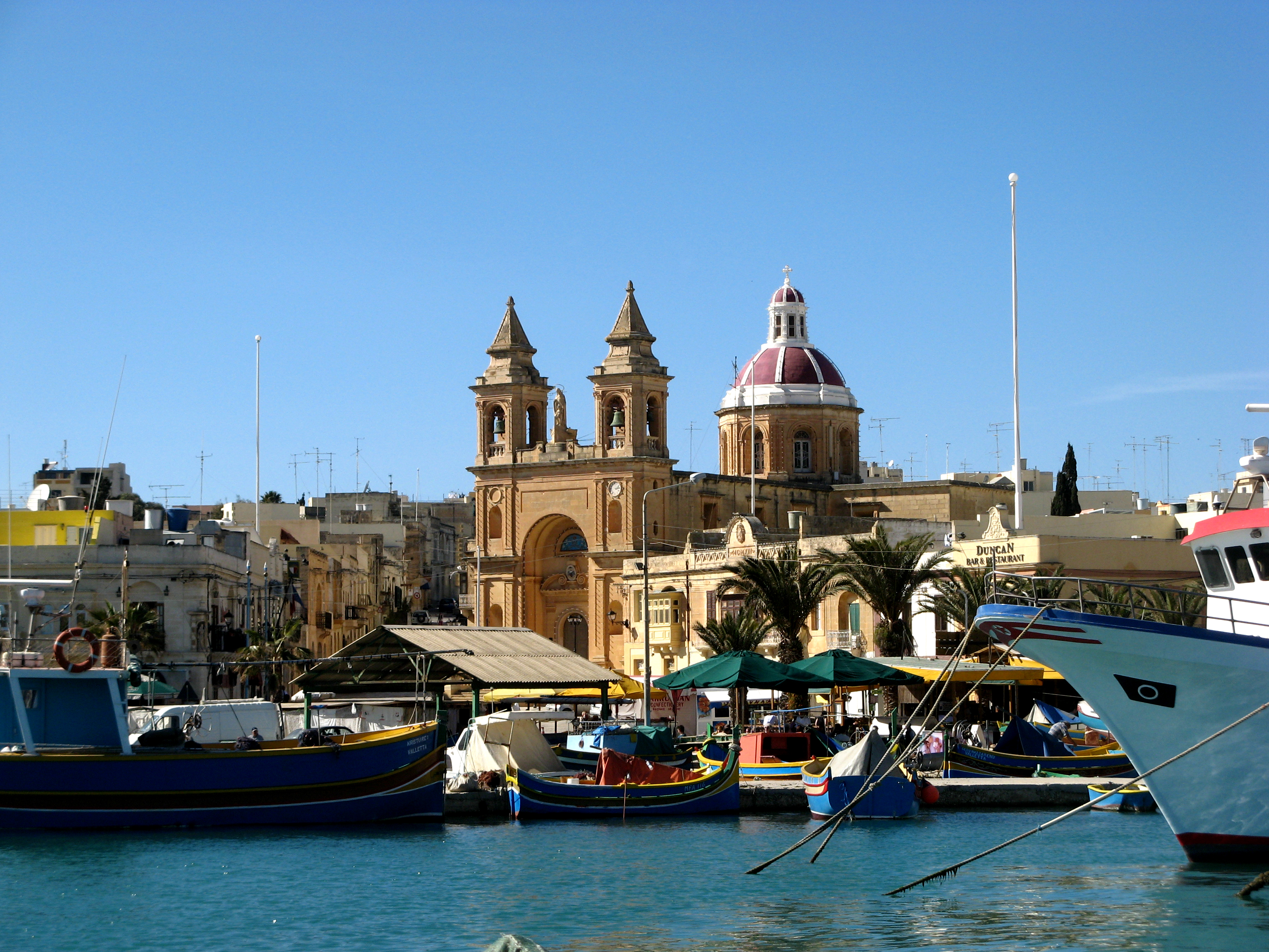 Marsaxlokk port and parish church, as seen from a pontoon at 'Xatt is-Sajjieda'